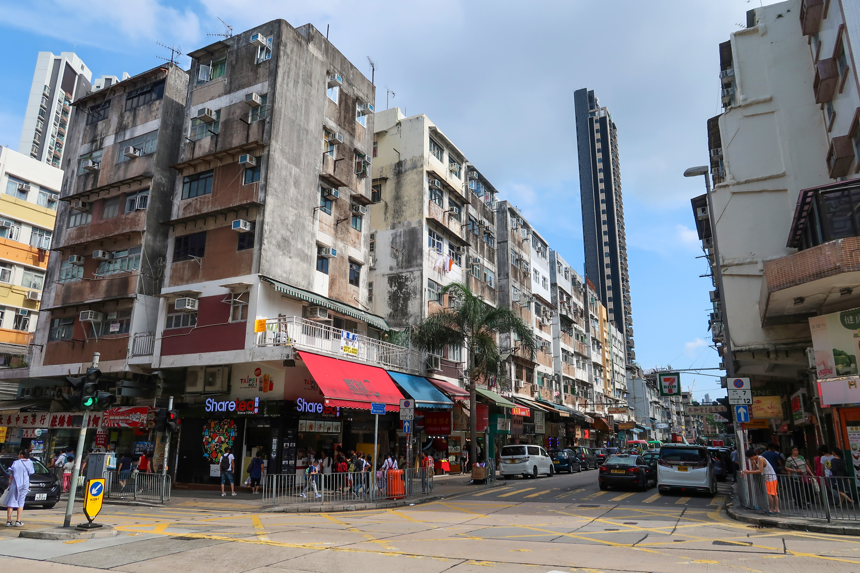 Lion Rock Road